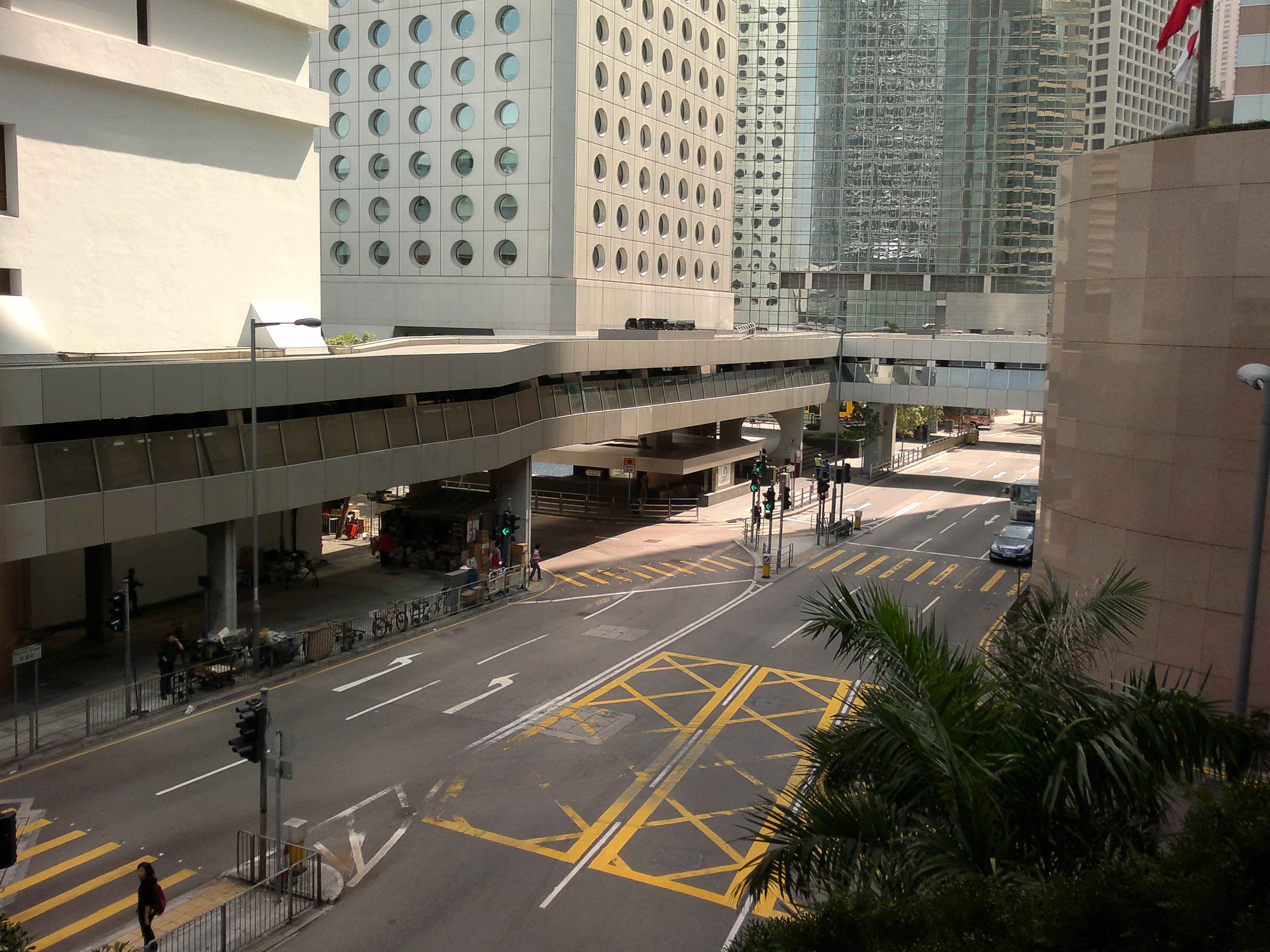 Connaught Place near Exchange Square